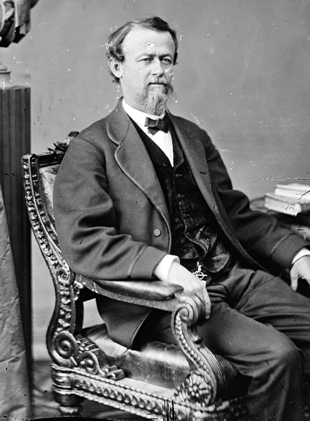 James T. Elliott, US Representative from Arkansas